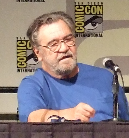 The guy behind the animated LotR, Fire and Ice, and Cool World reminisced about the good old days and called everyone in power nowadays crooks. Awesome!